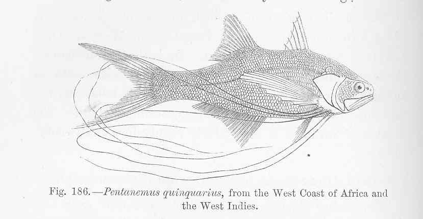 Pentanemus quinquarius, from the West Coast of Africa and the West Indies Subject: Polynemidae, Pentanemus Tag: Fish